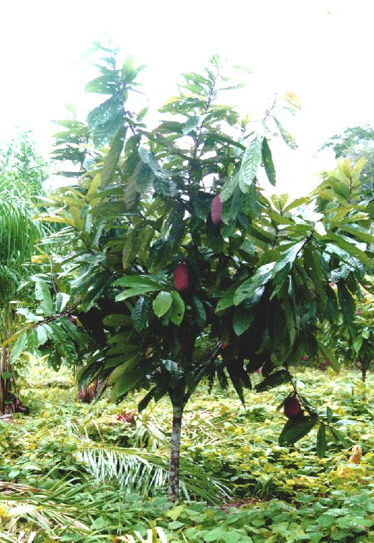 A four years old Cupuaçu near Manaus, Brazil. This EMBRAPA plantation was part of the German/Brasilian SHIFT reforestation project.